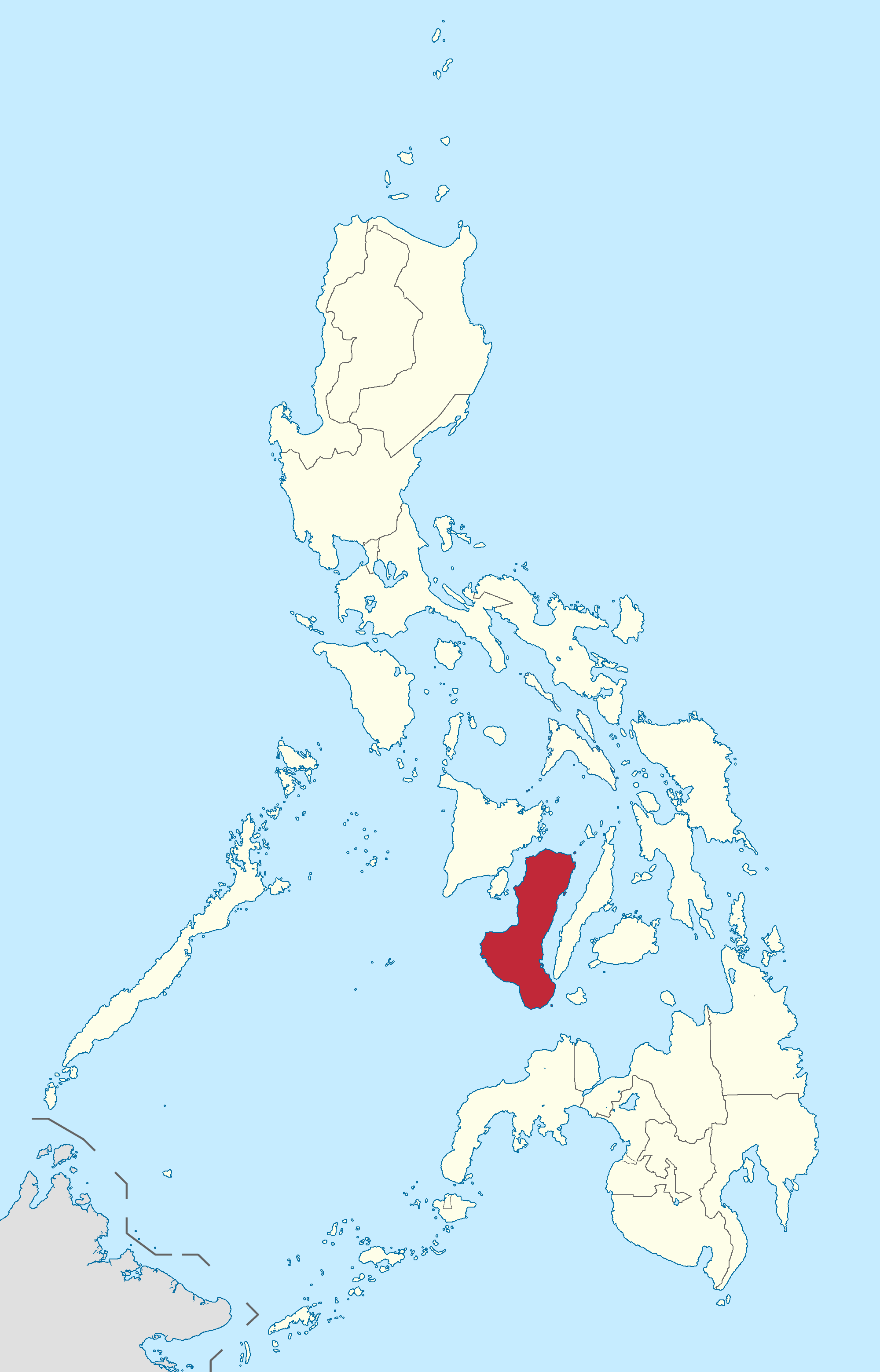 Location of Negros Island region in the Philippines. Tagalog: Kinaroroonan ng rehiyon ng Pulo ng Negros sa Pilipinas.